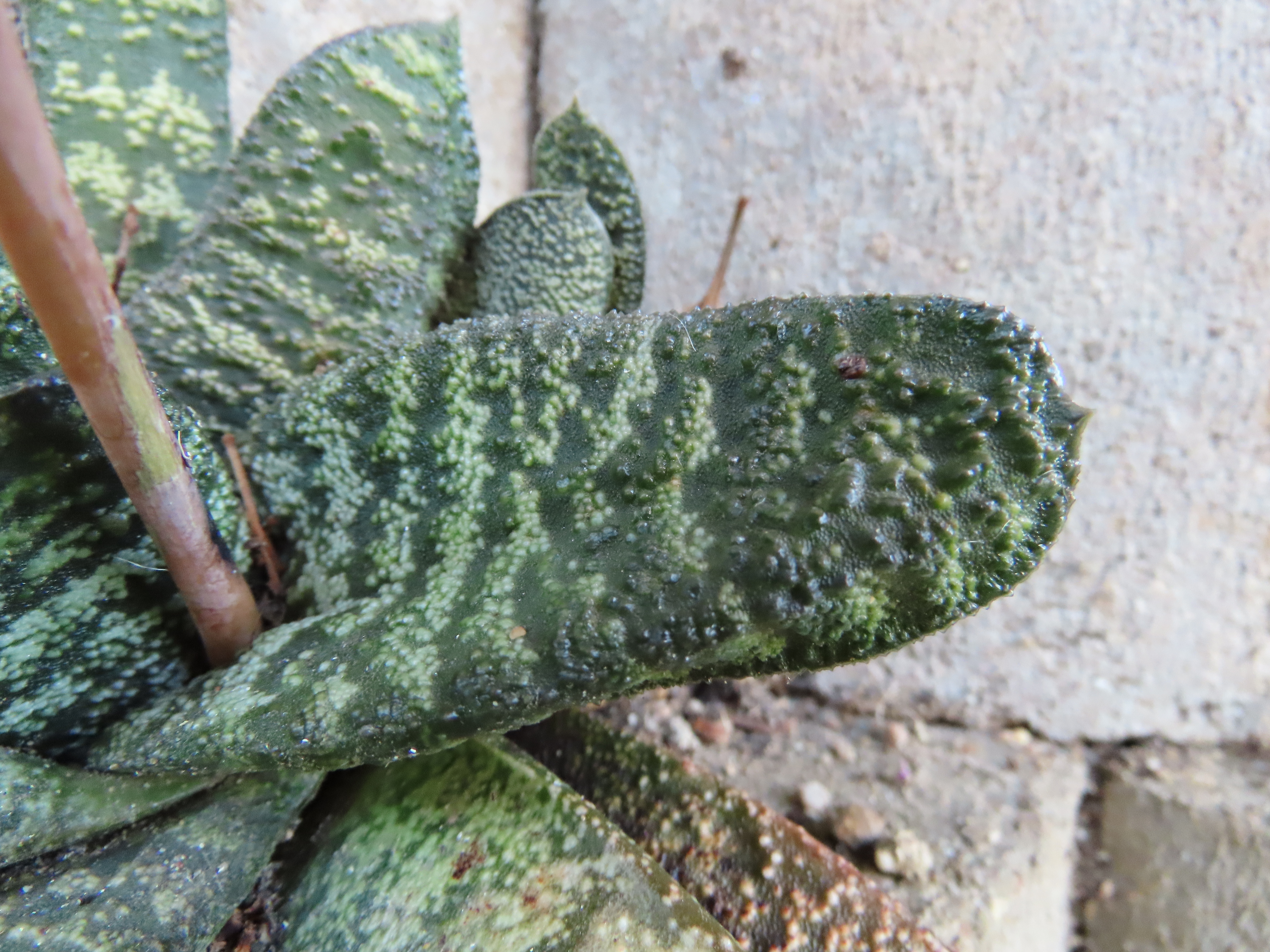 Rugose leaf from a species of Gasteria with mucronate, obtuse, lorate leaves. Most Gasteria species have glabrous leaves